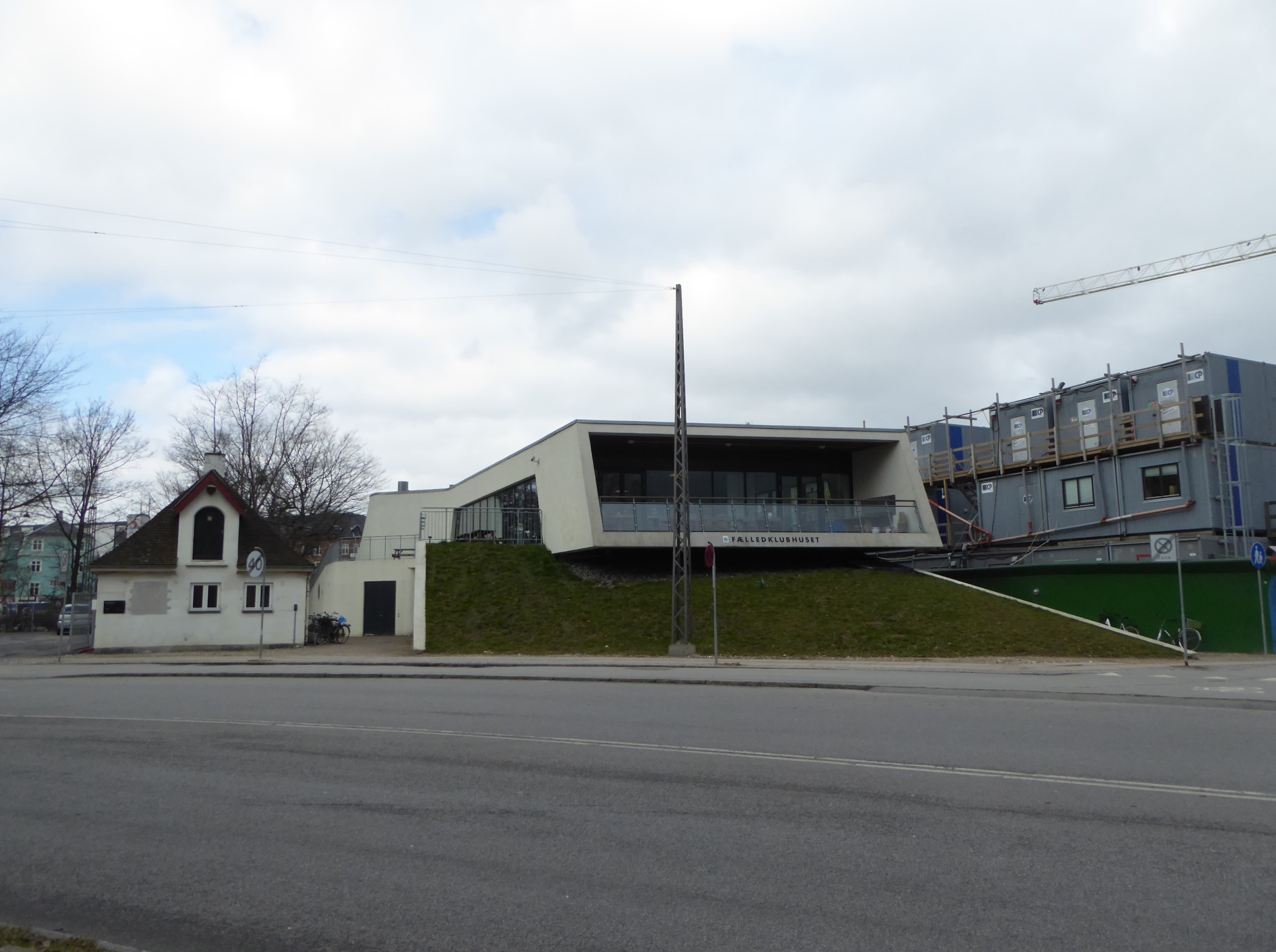 The soccer club house Fælledklubhuset at Øster Allé in Østerbro in Copenhagen.